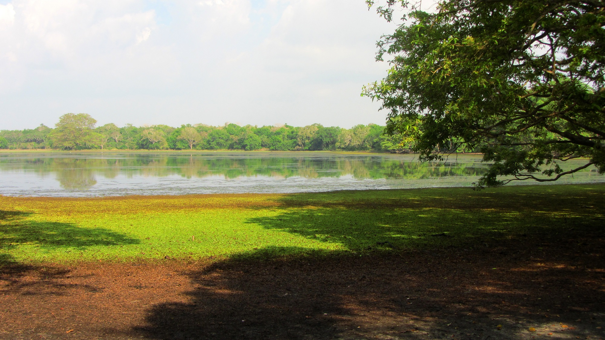 Wilpattu National Park, Sri Lanka.